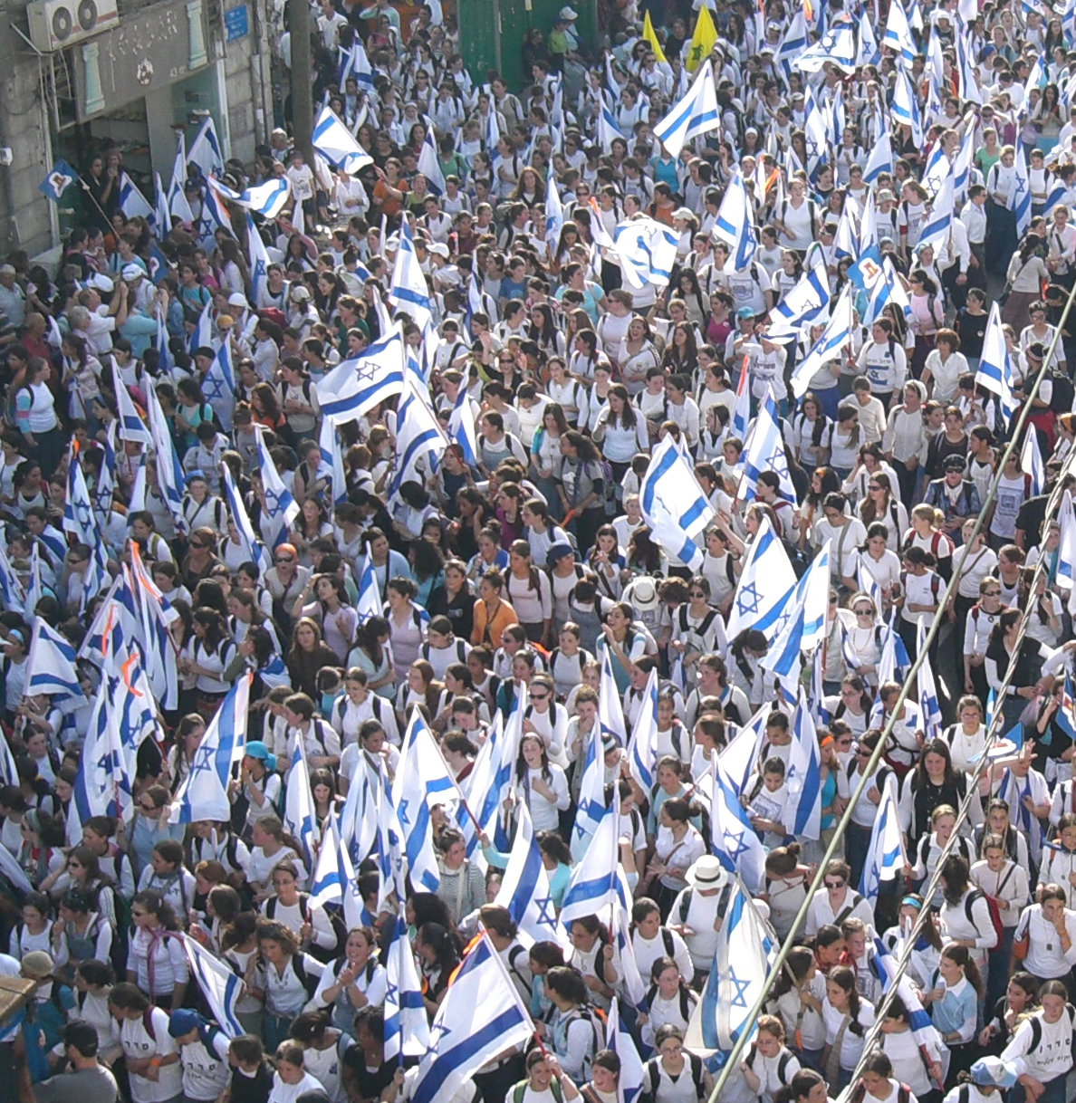 The Flags Dance, Yom Yerushalayim - Jerusalem Day, Jerusalem, Israel